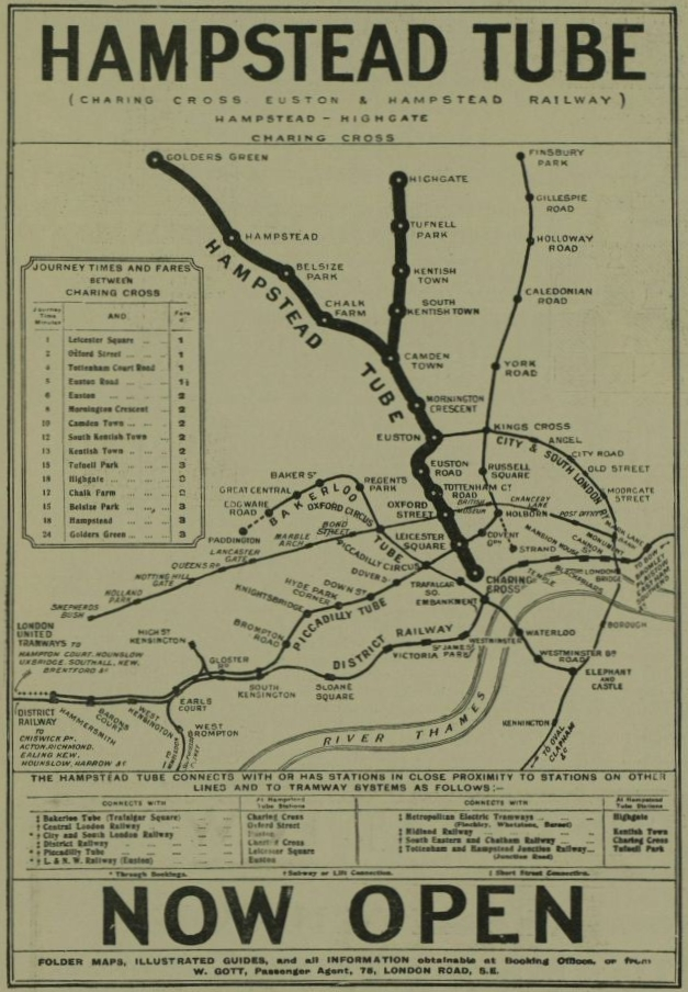 "Hampstead Tube (Charing Cross Euston & Hampstead Railway) Hampstead - Highgate Charing Cross". Advert map issued by the Underground Electric Railways Company of London (UERL) following the opening of the the Charing Cross Euston & Hampstead Railway (CCE&HR, now the Northern line) on 22 June 1907. The map shows the lines operated by the UERL: the CCE&HR, the Great Northern, Piccadilly and Brompton Railway (GNP&BR, now the Piccadilly line), the Baker Street and Waterloo Railway (B&SWR, now the Bakerloo line) and the central section of the District Railway (now the District line). The Aldwych branch of the GNP&BR and the extension of the BS&WR from Edgware Road to Paddington were under construction or approved for construction and are shown as dashed lines. The Aldwych branch opened on 30 November 1907, Paddington extension opened on 1 December 1913. Other Underground lines (Central London Railway, City and South London Railway, Metropolitan Railway) are also shown.